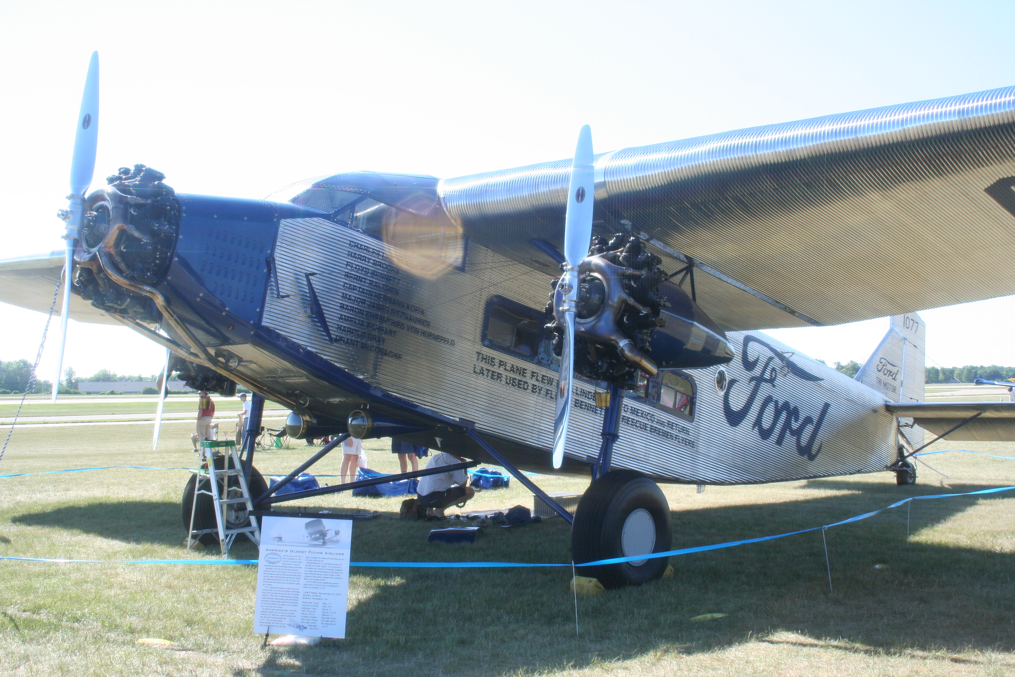 early seies Ford Trimotor